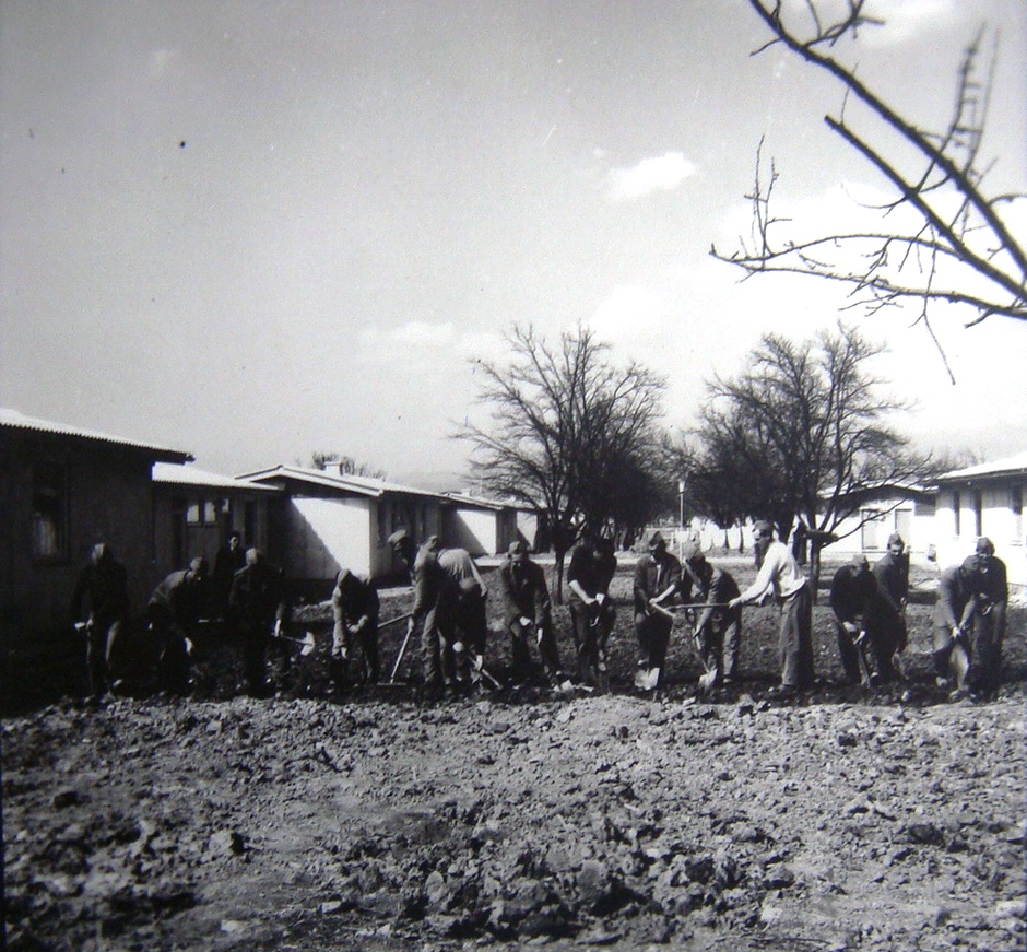 1963 Skopje earthquake: Arrangement of parks in the settlement Vlae, by forestry workers from across Yugoslavia (January 5, 1964) This media file is produced by Wikipedian in Residence in Category:Wikipedian in Residence at DARM in 2016.